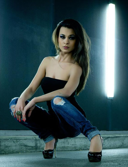 DJane Petty Joy